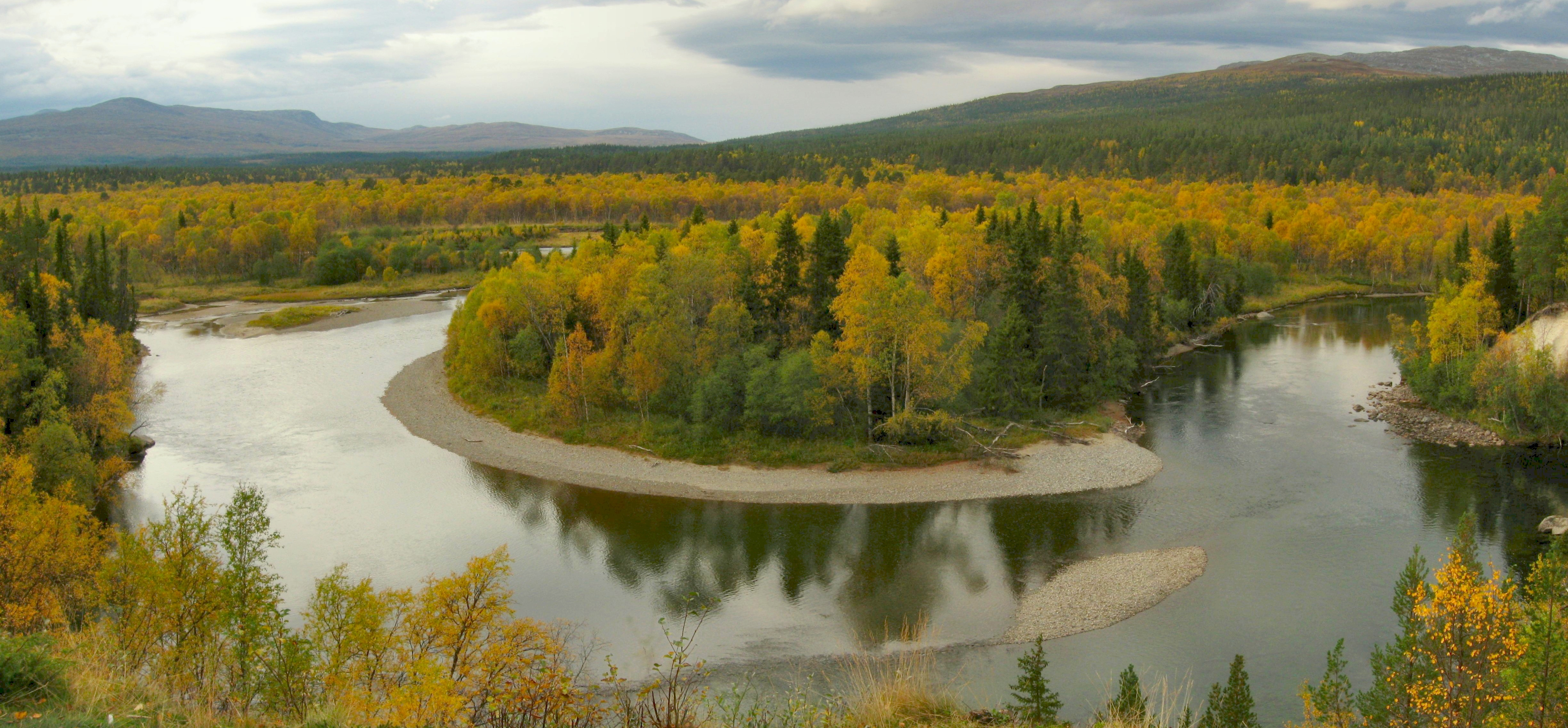 "Nipan", a vista point over river Vålån in Jämtland, Sweden.